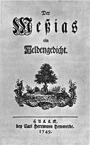 First page of "Der Messias", by Friedrich Gottlieb Klopstock, 1749